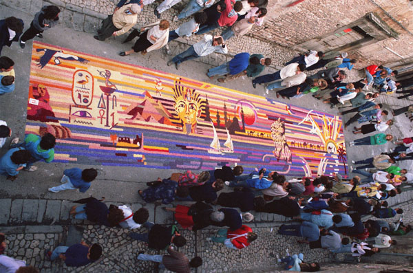 Spello's infiorata (1987)